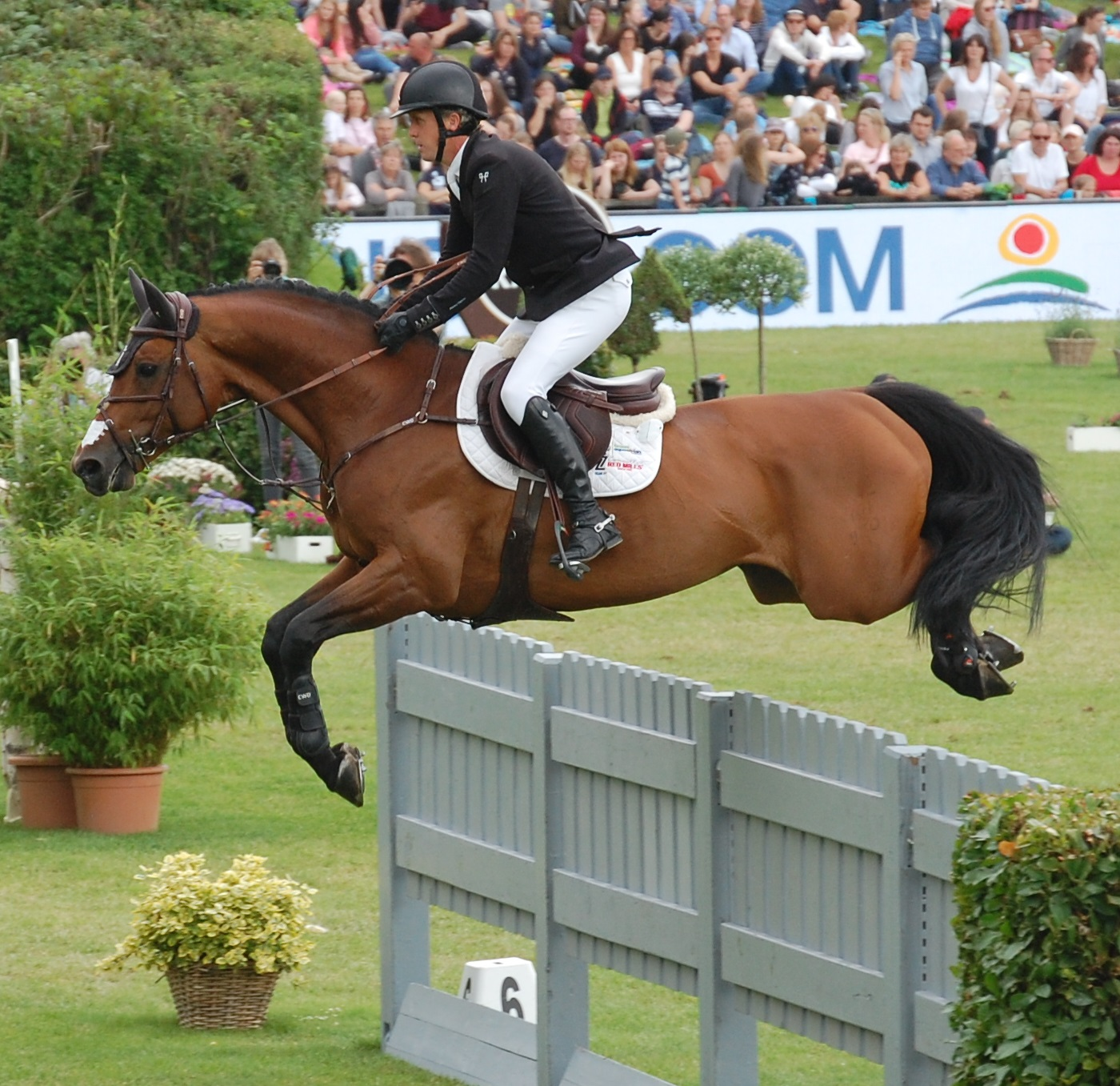 Irish rider Shane Breen with Can Ya Makan at the 2nd qualifier for the 90th German Jumping Derby, Hamburg 2019. Fence 6 “Palisade”